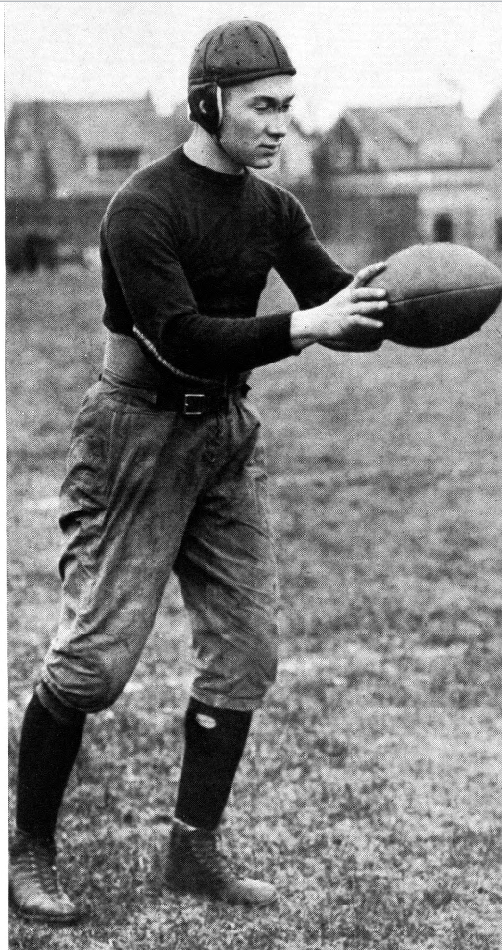 Photograph of Elton Wieman, 1917